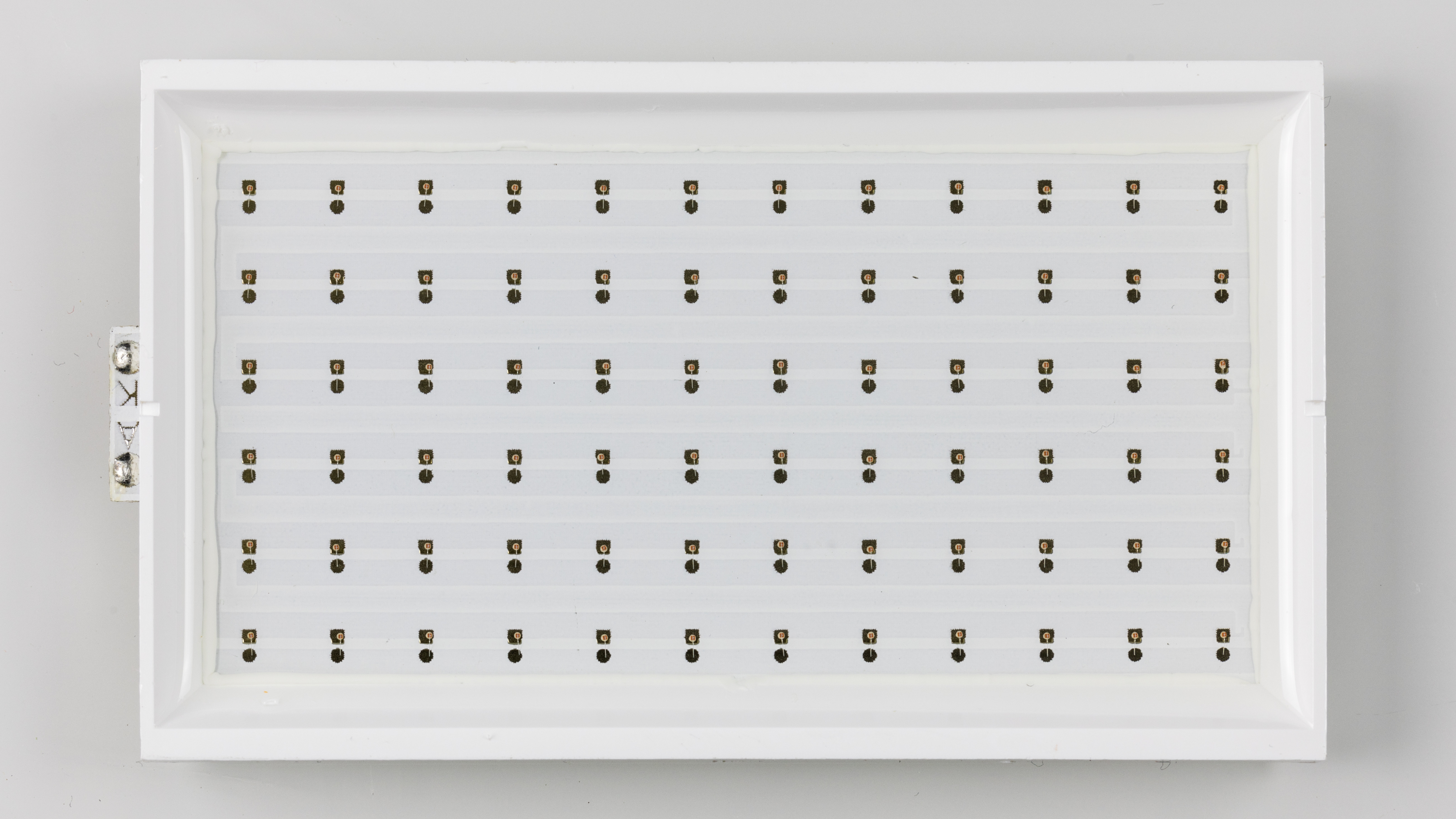 Medical Econet PalmCare - display module - LED-backlit LCD - Direct LED full array